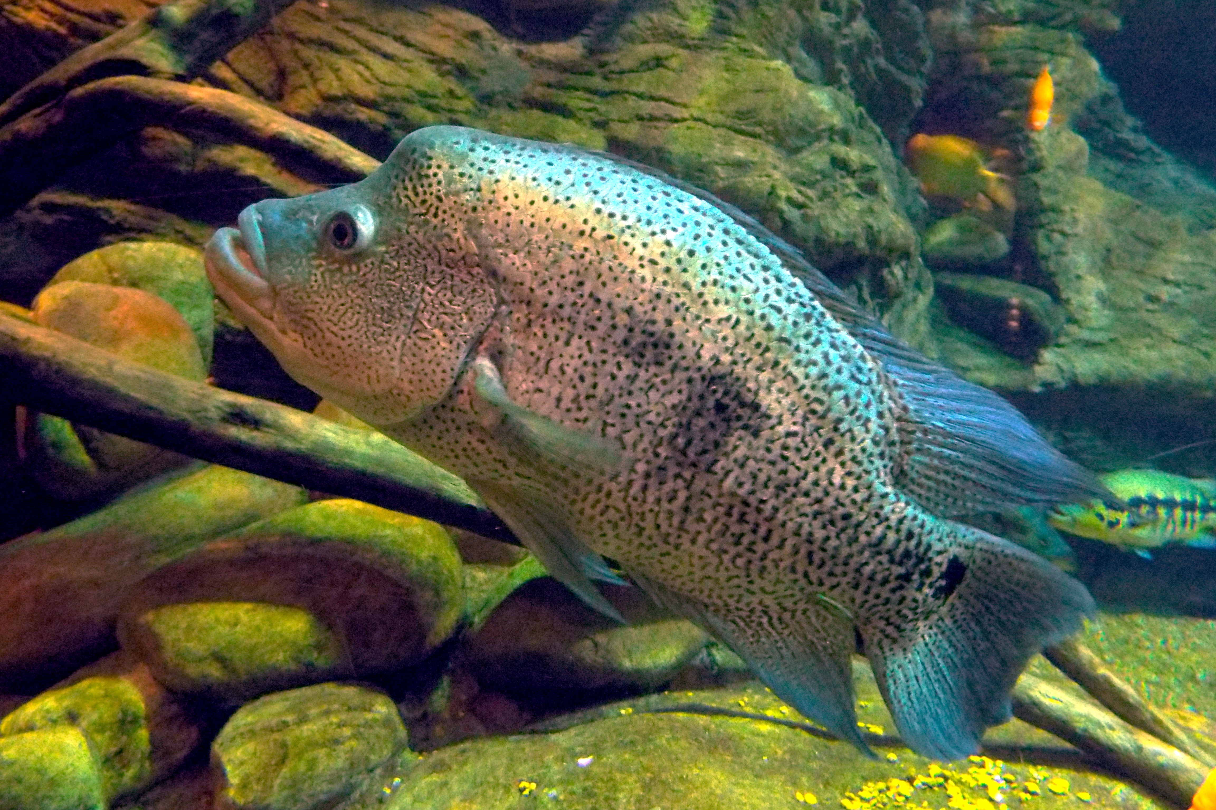 Parachromis dovii in the Tennessee Aquarium in Chattanooga, TN